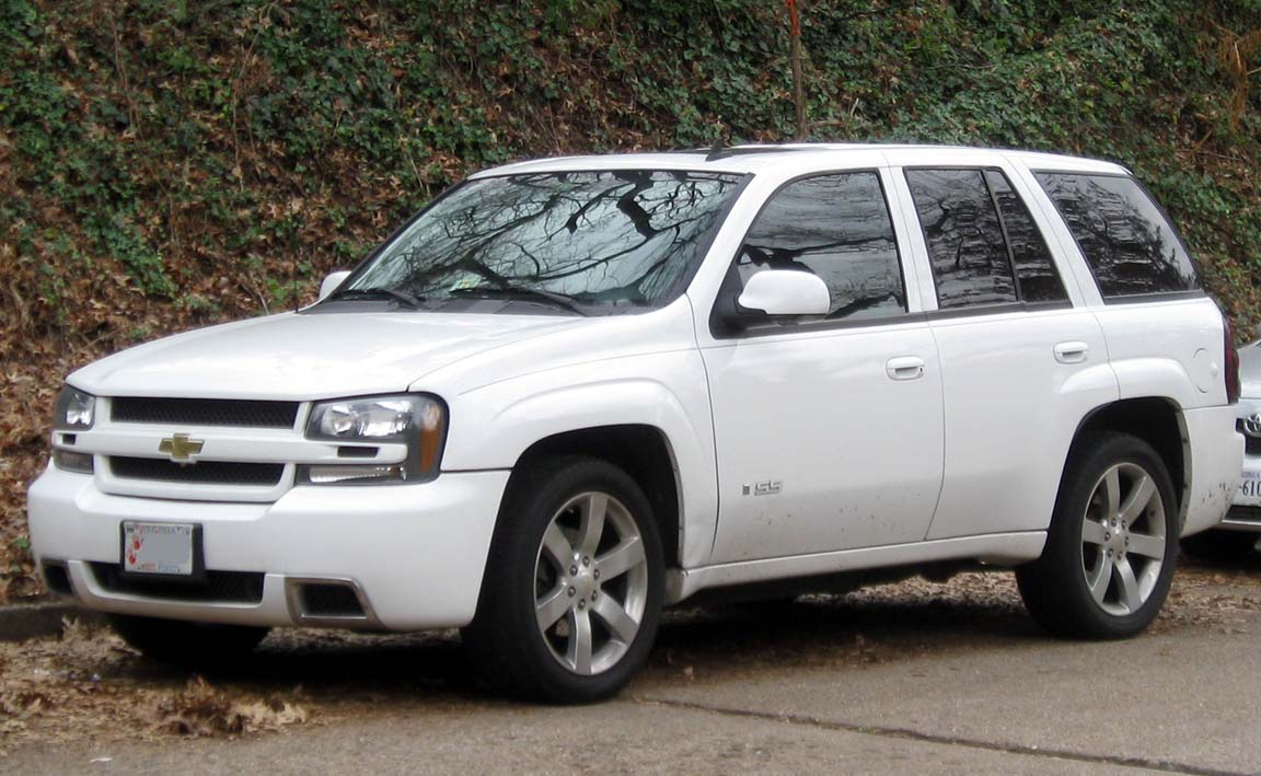 Chevrolet TrailBlazer photographed in Washington, D.C., USA.